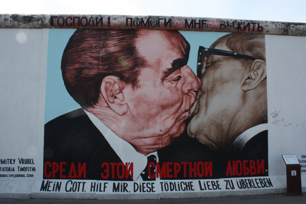 Picture from East Side Gallery, showing « Bruderkuss » from Dmitri Vrubel